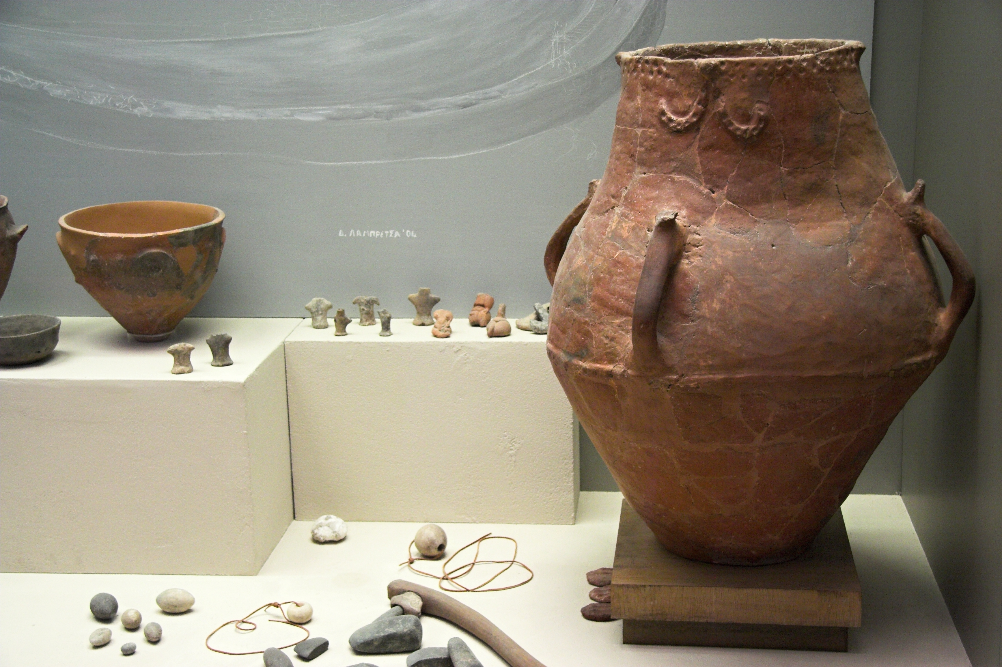 Finds from Sesklo, Neolithic Period, circa 5300 BC. National Archaeological Museum of Athens.